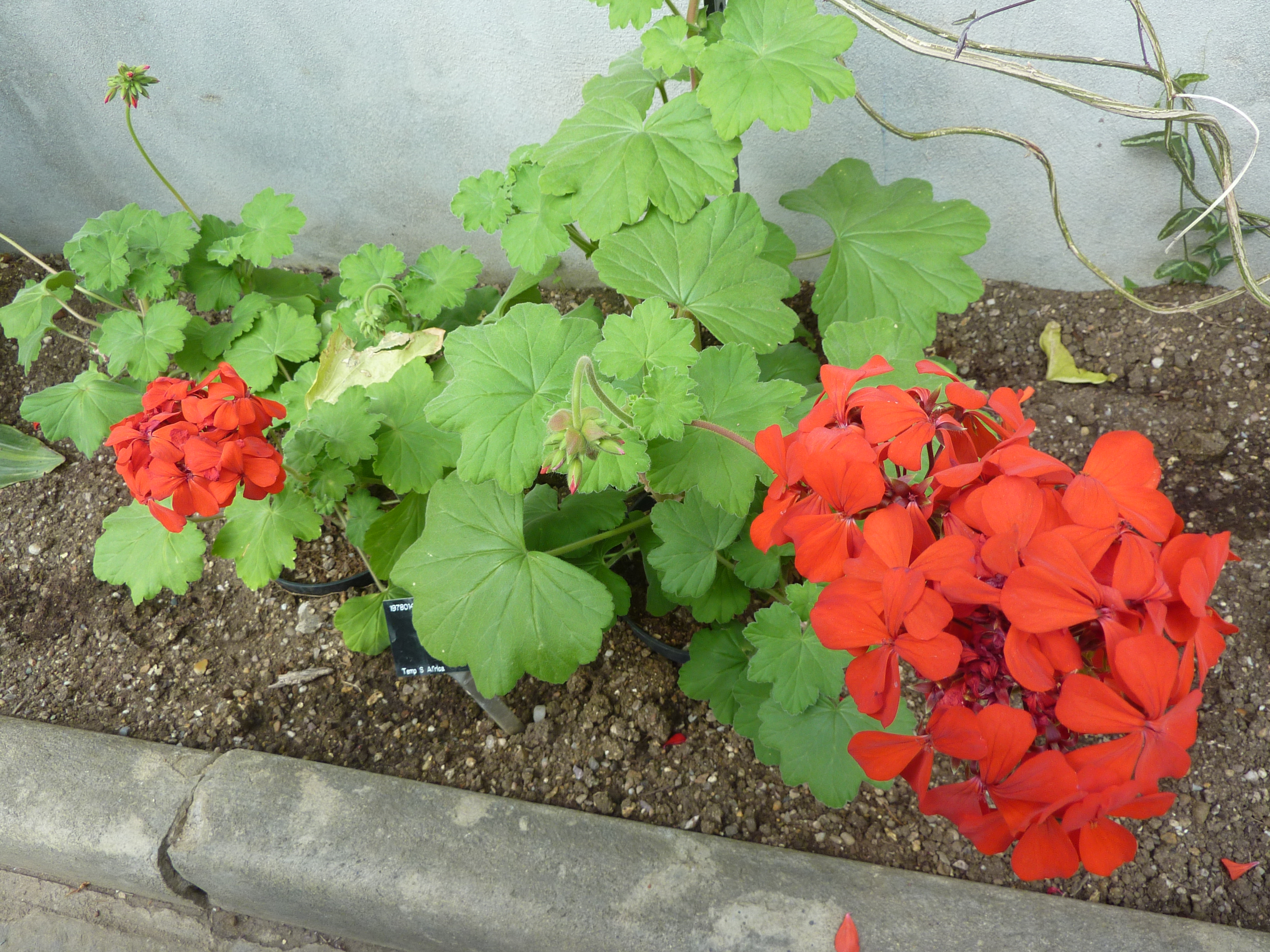 Taken in the Cambridge University Botanic Garden.